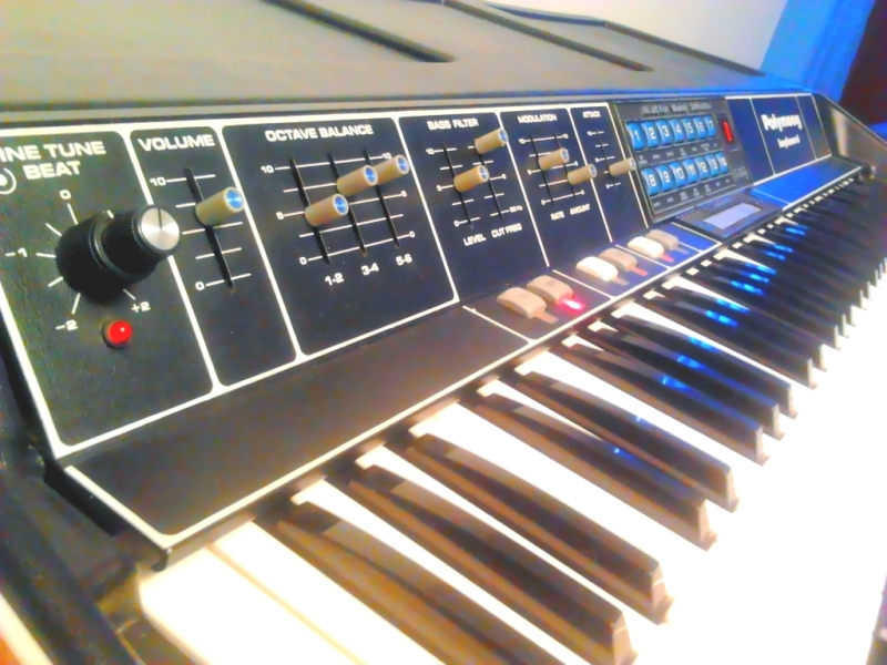 The Polymoog Keyboard 280a released in 1975 by Moog Music.